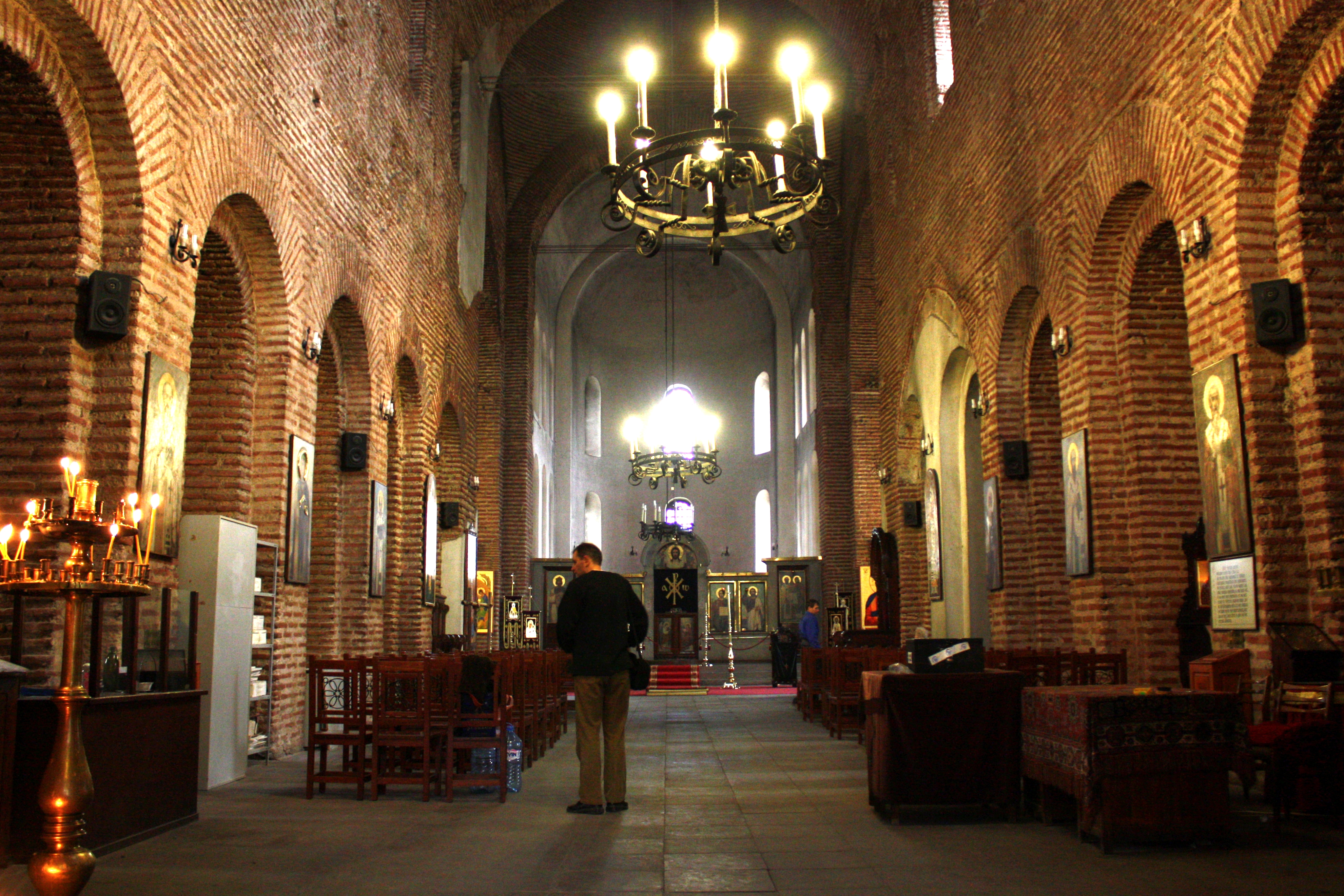 Sveta Sofia Church in Sofia, Bulgaria